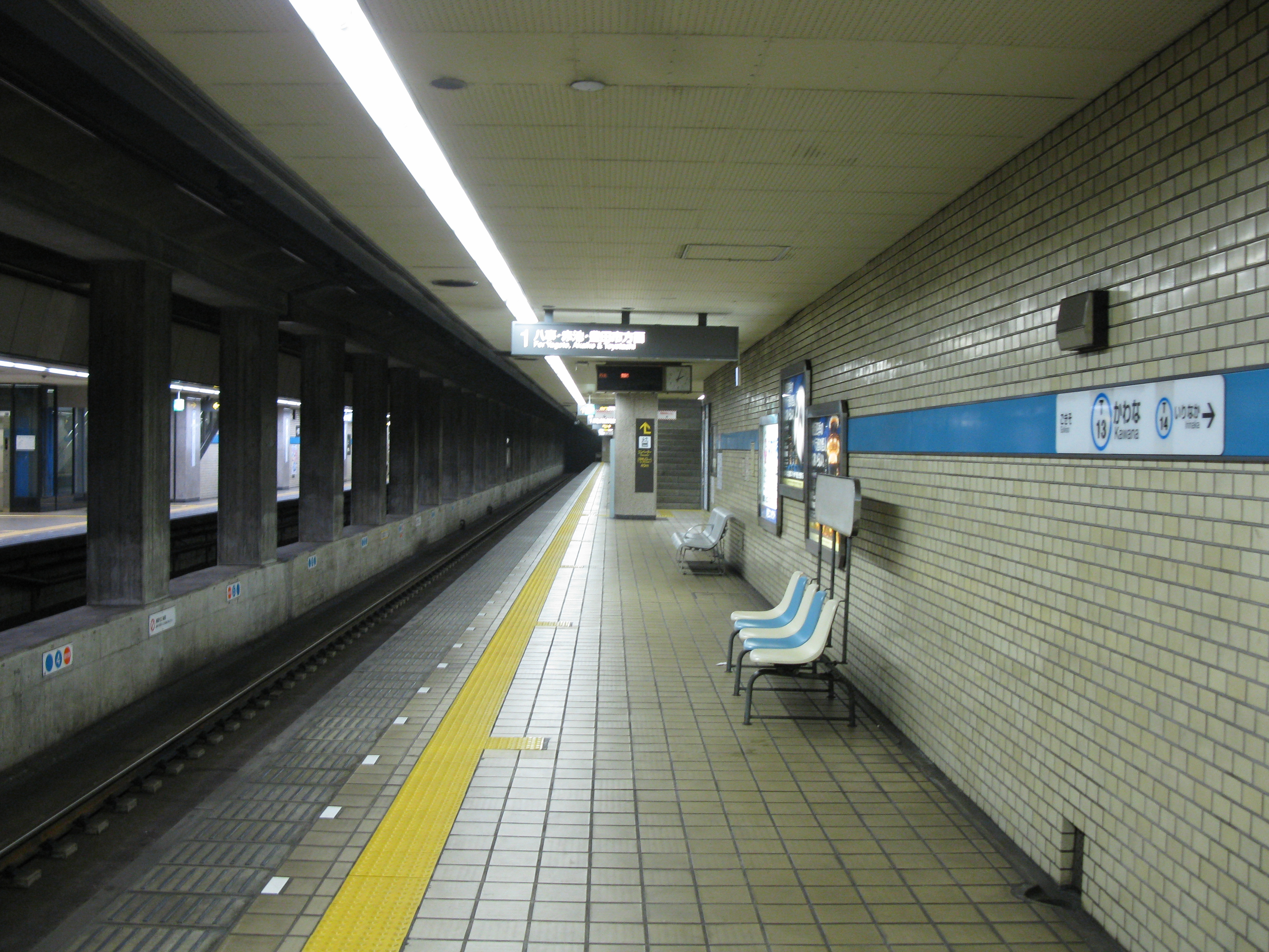 Kawana Station platform (Nagoya Municipal Subway Tsurumai Line)